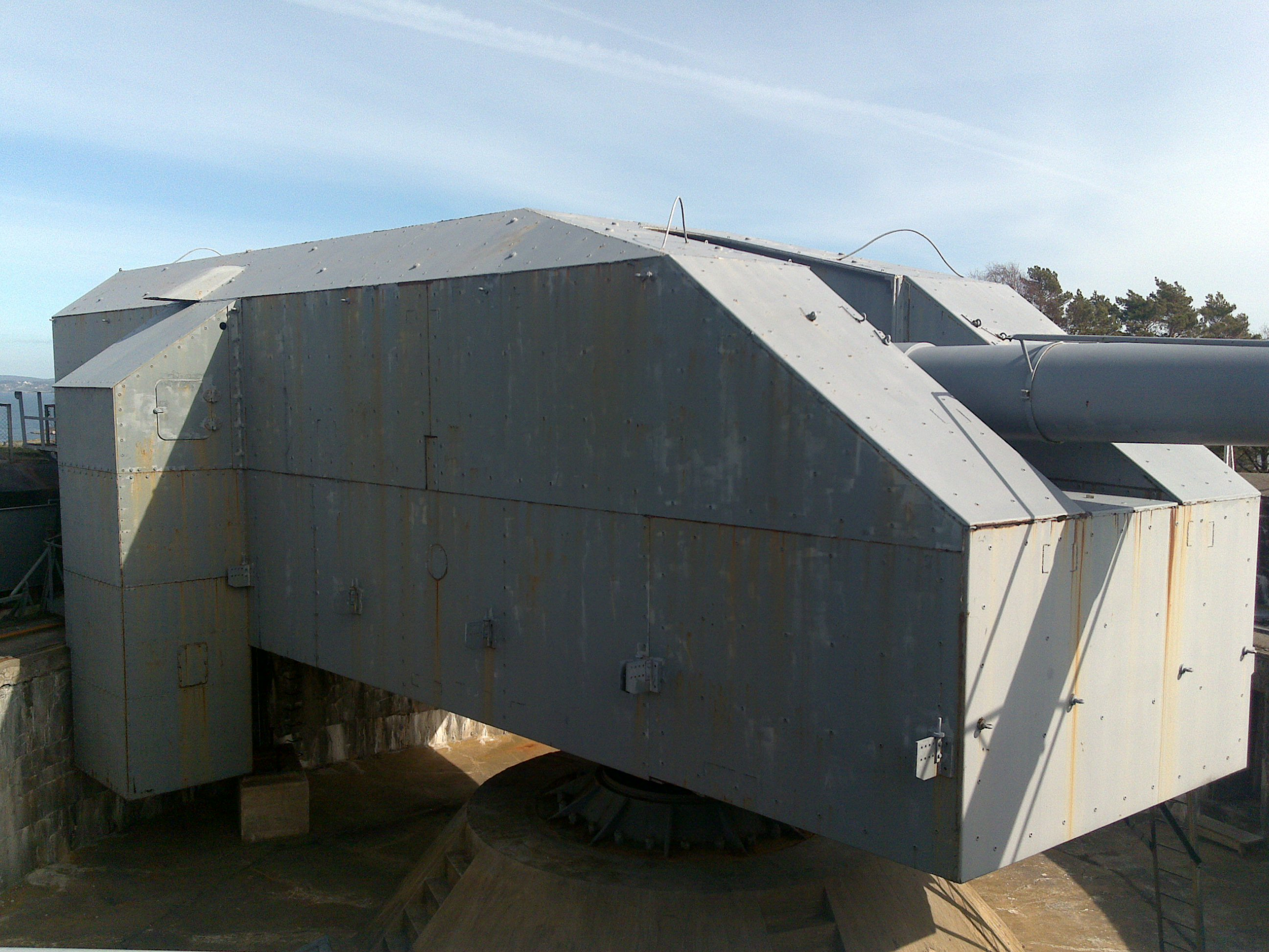 Batteri Vara (ww ii), west of Kristiansand, Norway